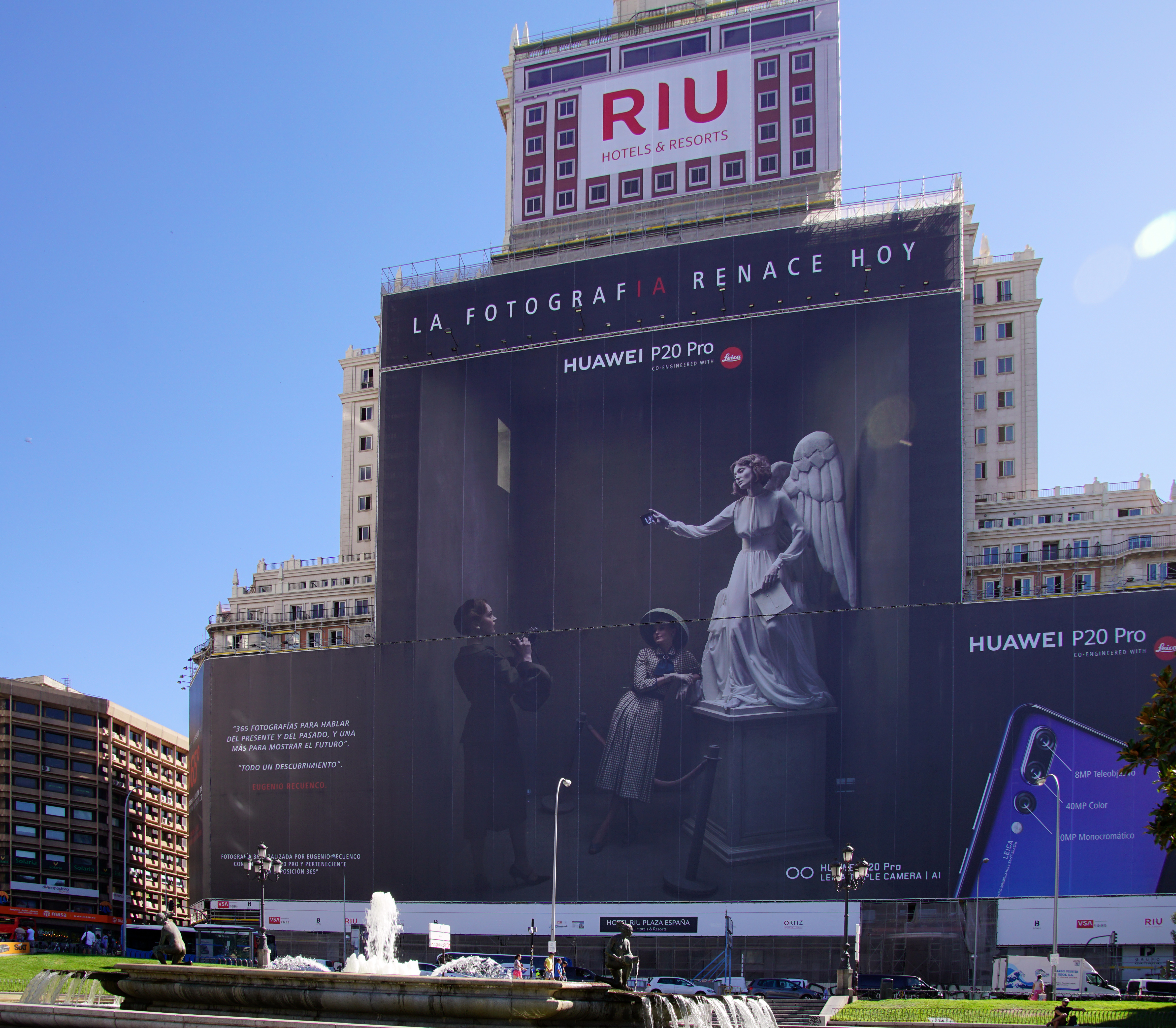 Scaffolding cover stitched together from single fabric panels printed on large format inkjet presses